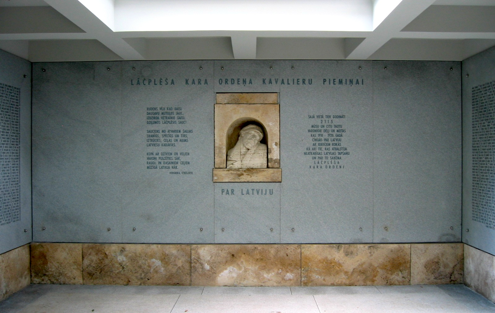 Interior of the Chapel of the Order of Lāčplēšis at Brothers' Cemetery in Riga